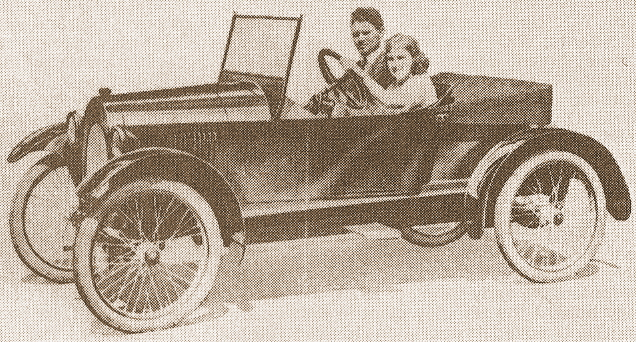 1923 Hanover Cyclecar